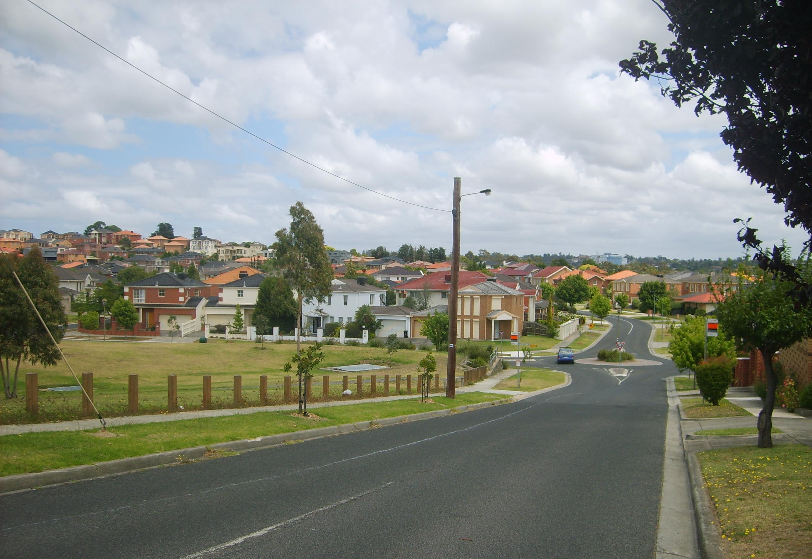 Housing Estate in Bulleen near Sheahans Rd.